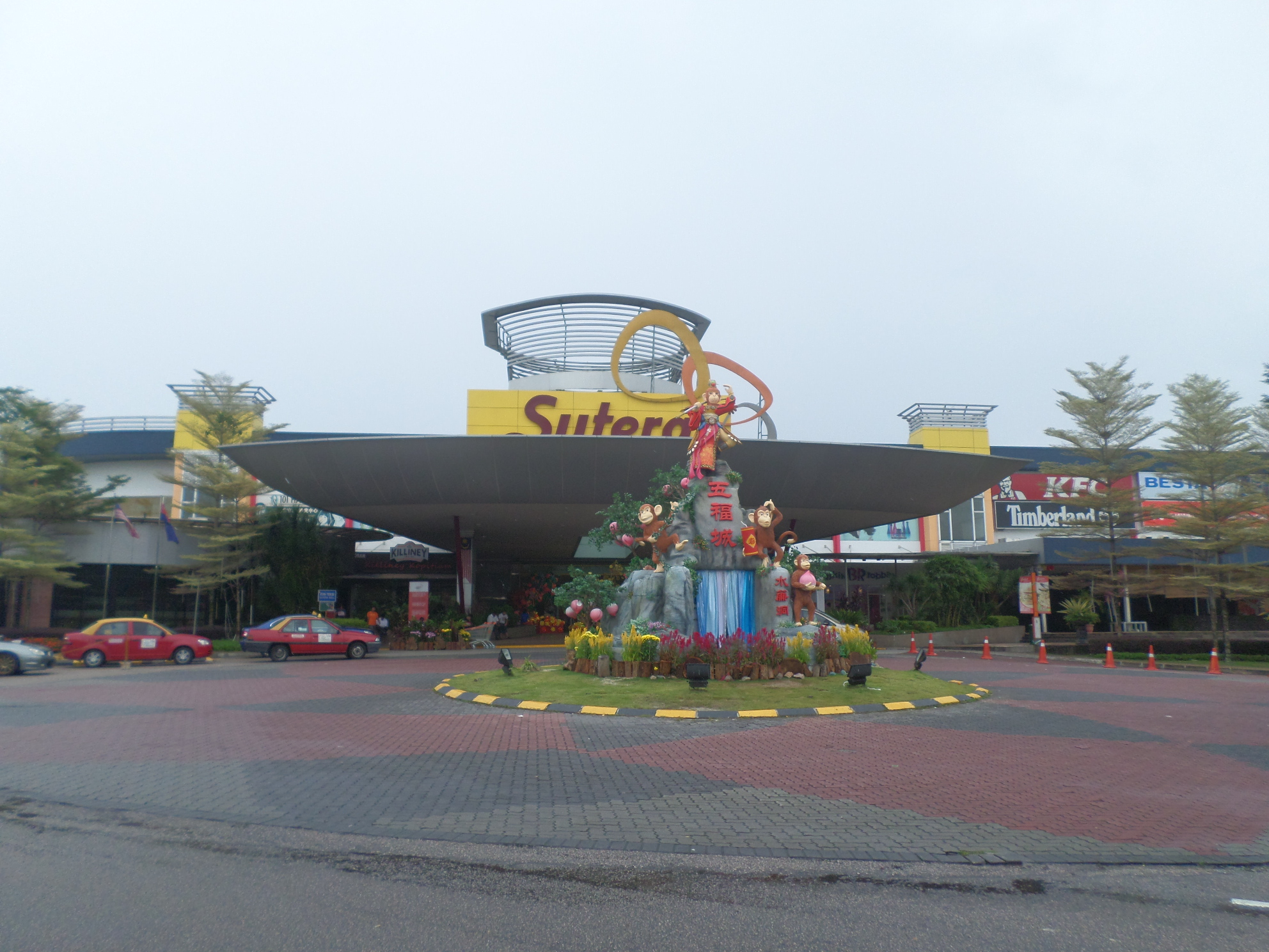 Sutera Mall, Taman Sutera Utama, Skudai, Iskandar Puteri, Johor Bahru, Johor, Malaysia